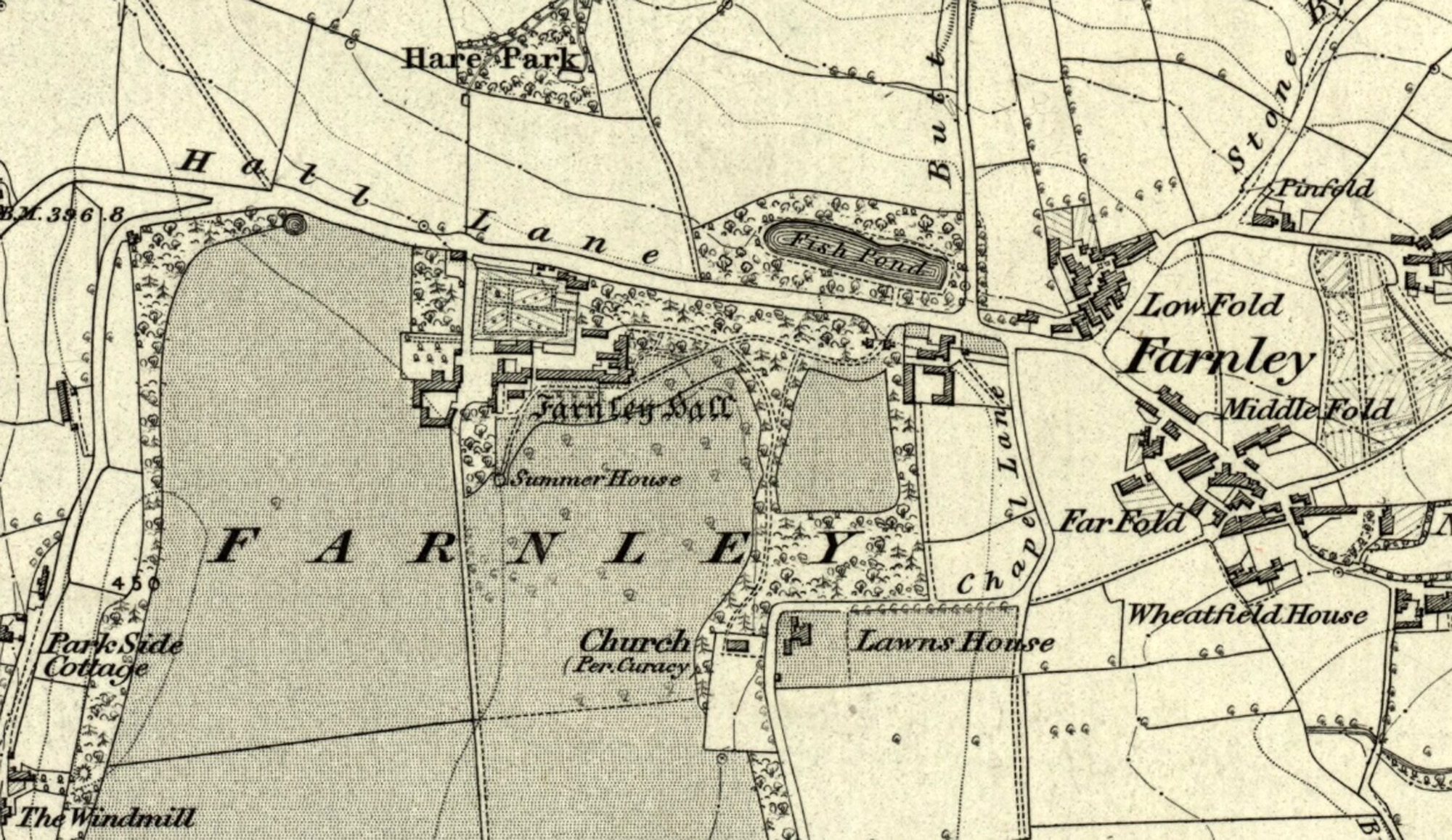 Map Farnley Hall, Farnley 1947